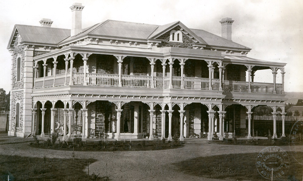 Two-storey mansion built for C. A. Hornabrook